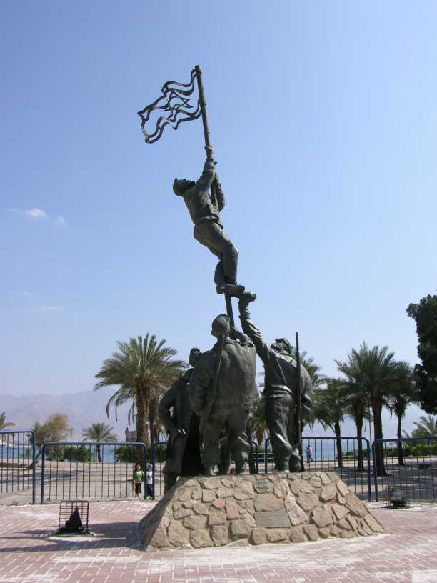 Umm RashRash, ink flag